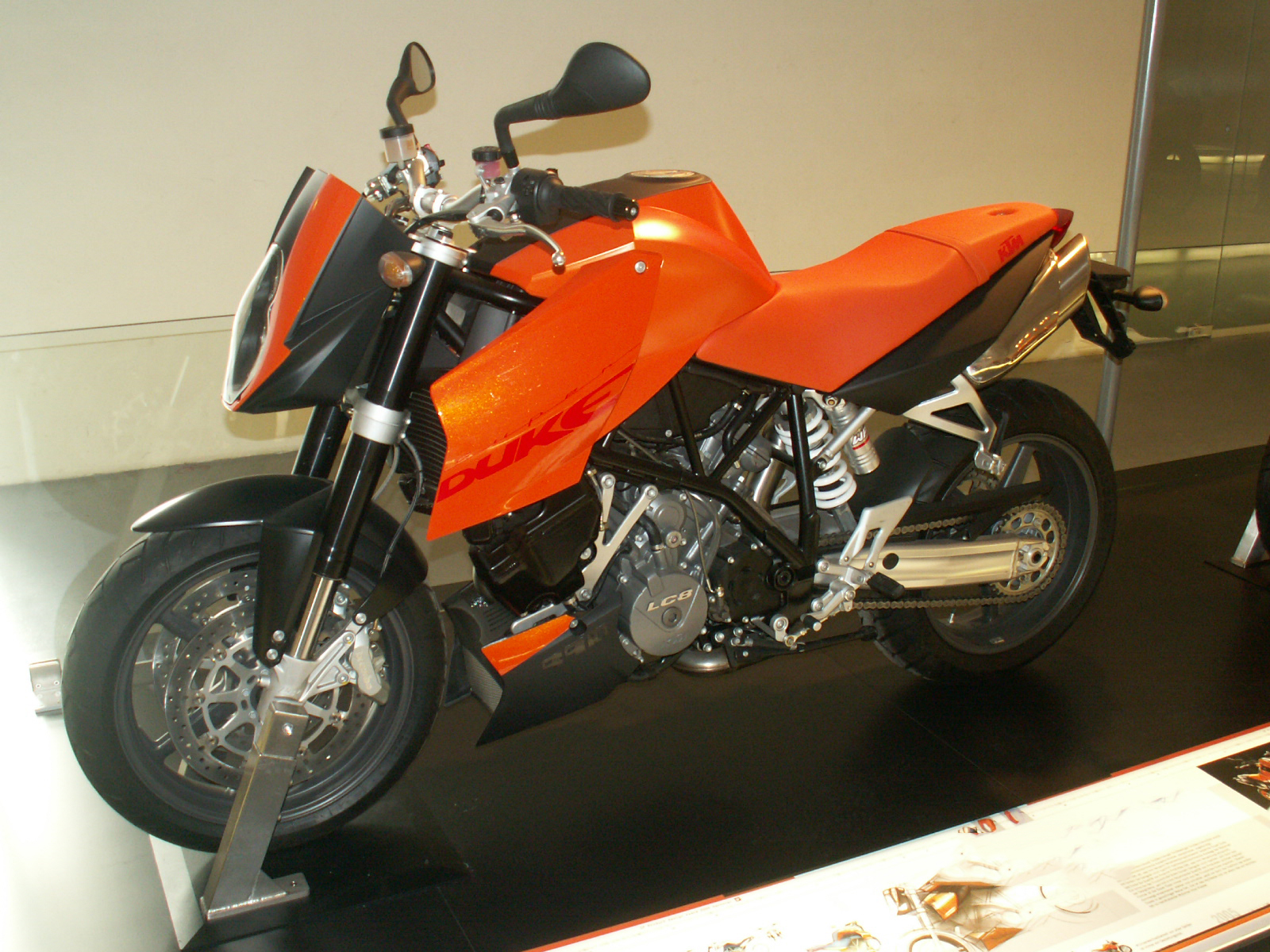 Fotographed at a exhibition in Vienna Design Forum march 2006